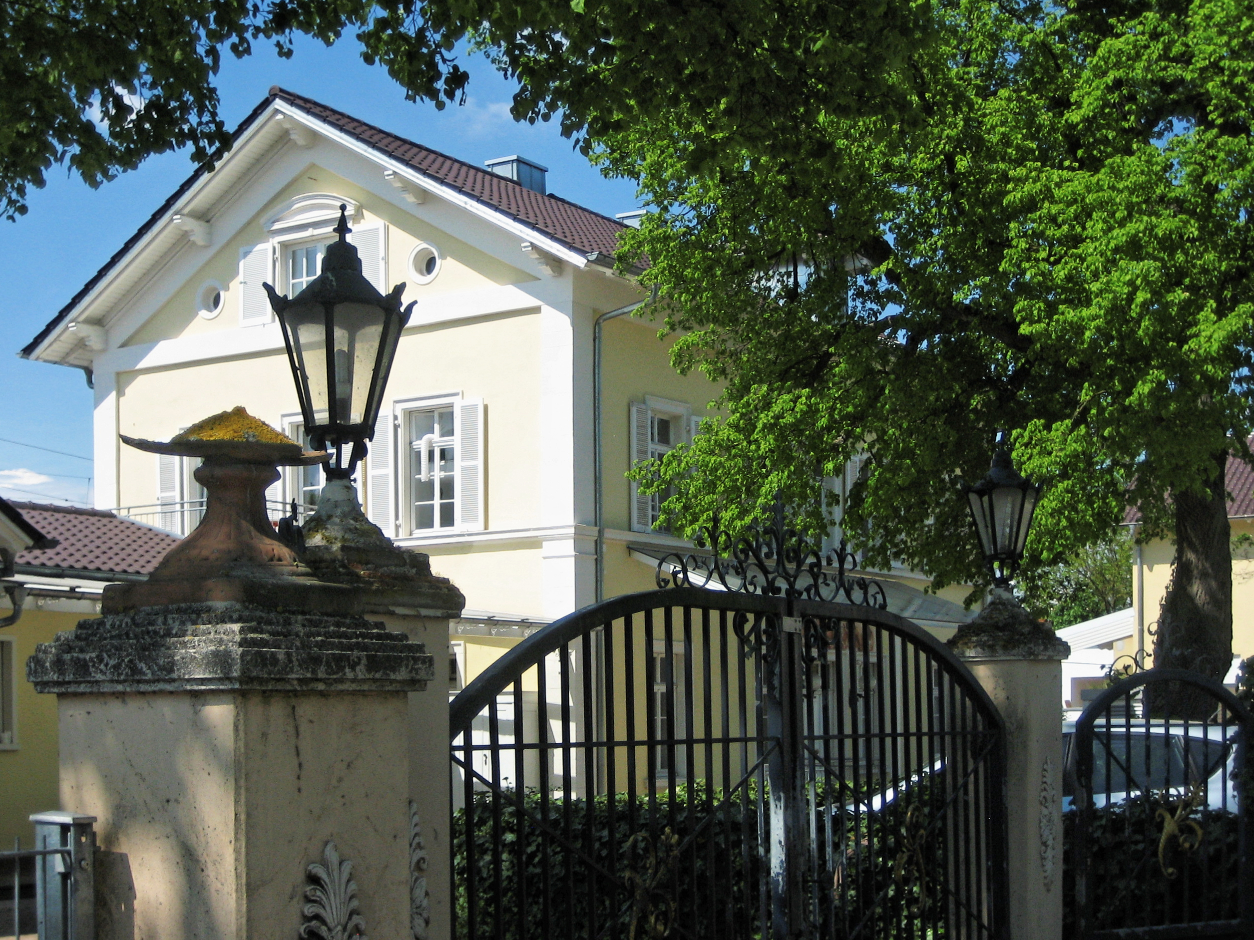 Früheres Empfangsgebäude des Bahnhof Jockgrim